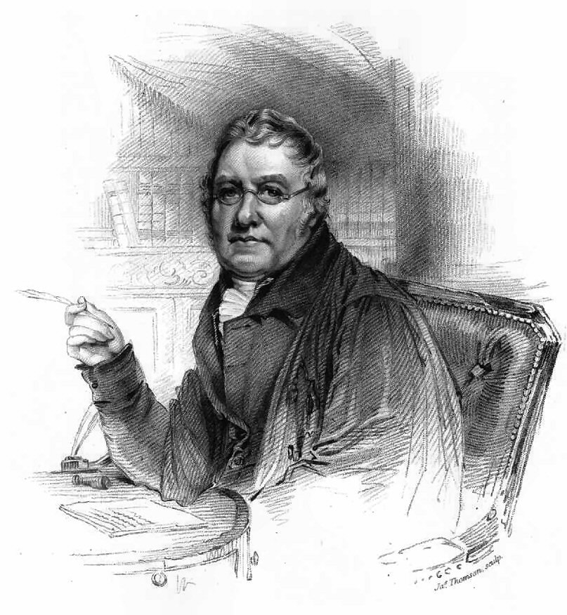 Playfair was professor of mathematics and later professor of natural philosophy at the University of Edinburgh.